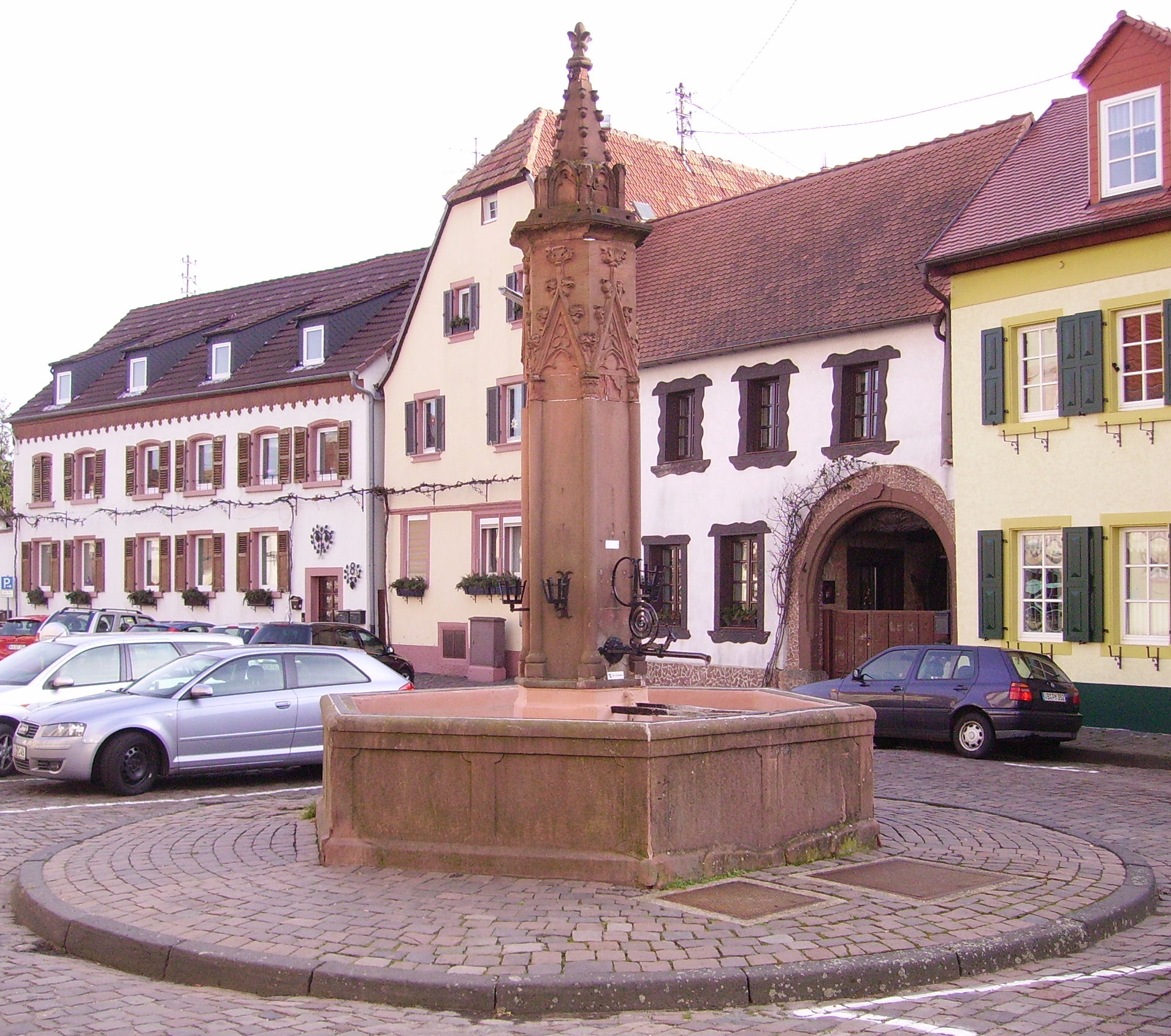 fountain in Edenkoben in Rhineland-Palatinate, Germany